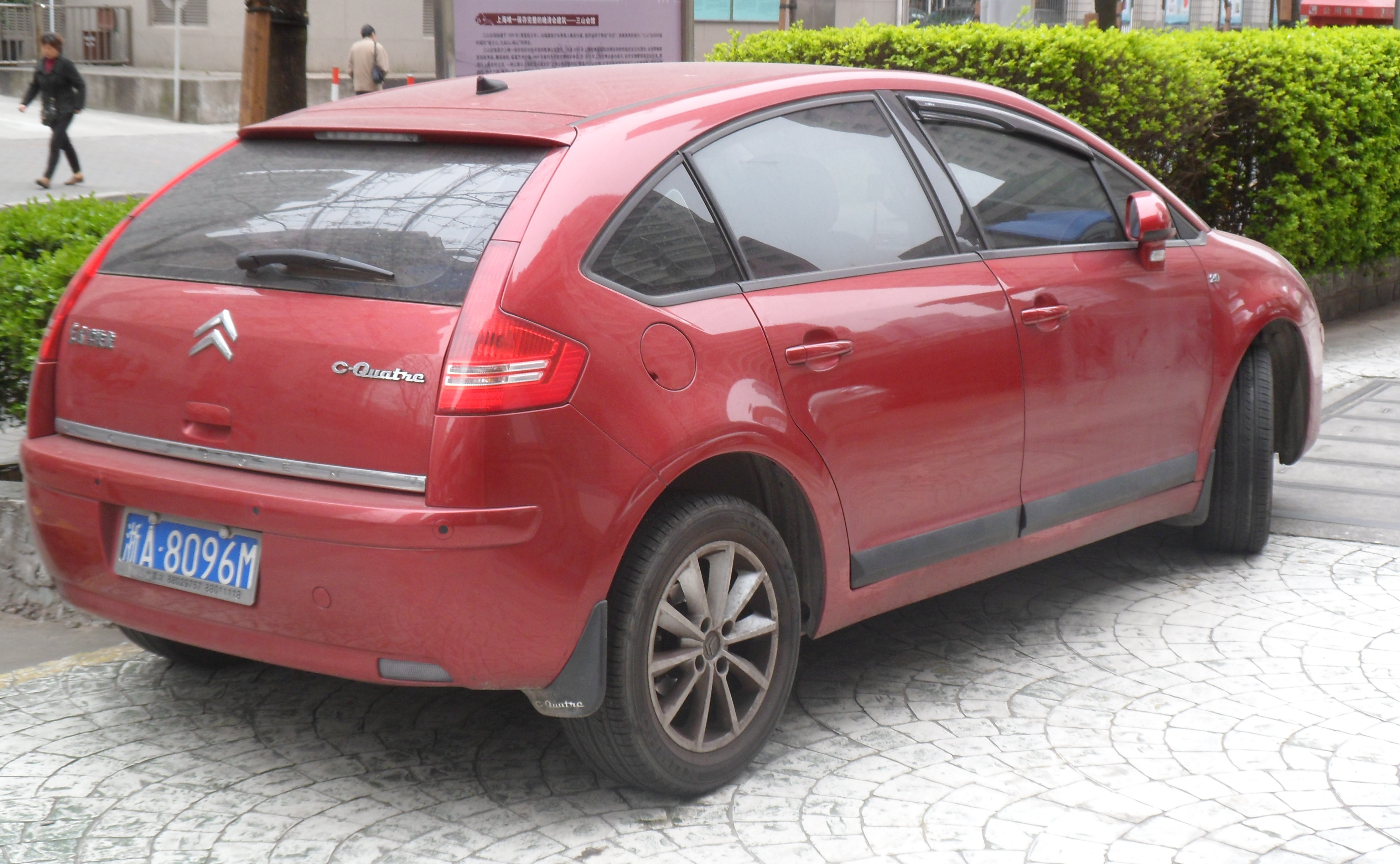 Citroën C-Quatre photographed in Shanghai, China.